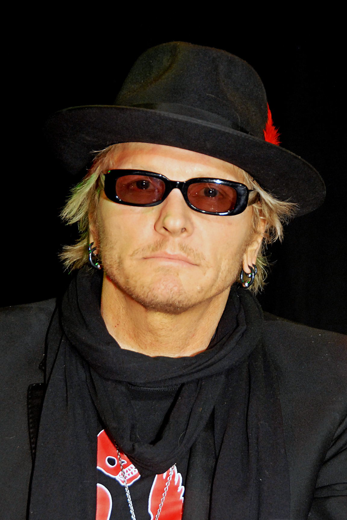 Matt Sorum, West Hollywood, CA on March 1, 2012 - Photo by Glenn Francis of